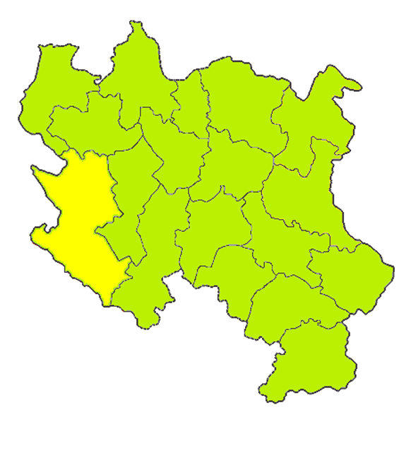 Map of Zlatibor